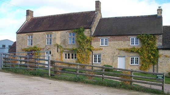 Home Farm, Todenham Seen from the minor road from Fosse Way, Home Farm house. The driveway to Home Farm is behind the wooden fence. The driveway in the immediate foreground leads, on the left hand side of it, to Morris Farm and, on the right hand side of it, to barns belonging to Dunsden Farm (hence the green sign as Dunsden Farm itself is on the opposite side of the road).